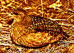 Hartlaub's Francolin Pternistis hartlaubi